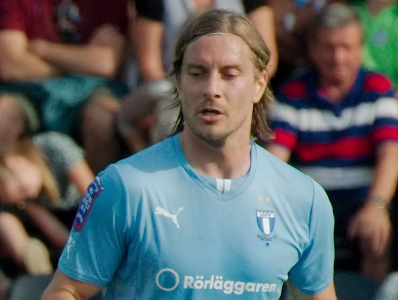 Allsvenskan IF Brommapojkarna-Malmö FF at Grimsta IP